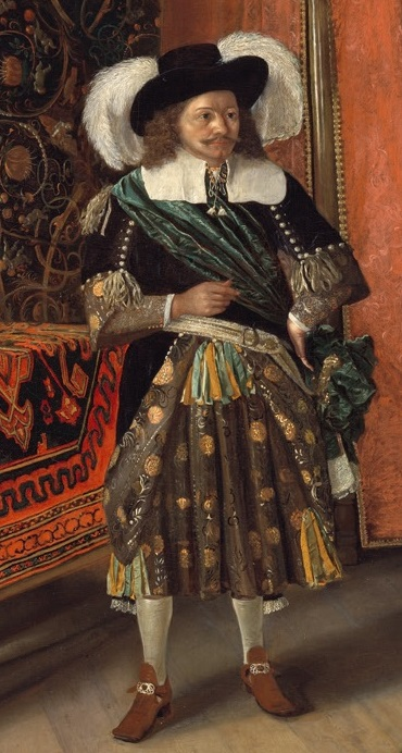 Portrait of Dirck Wilre, governor of the Dutch Gold Coast